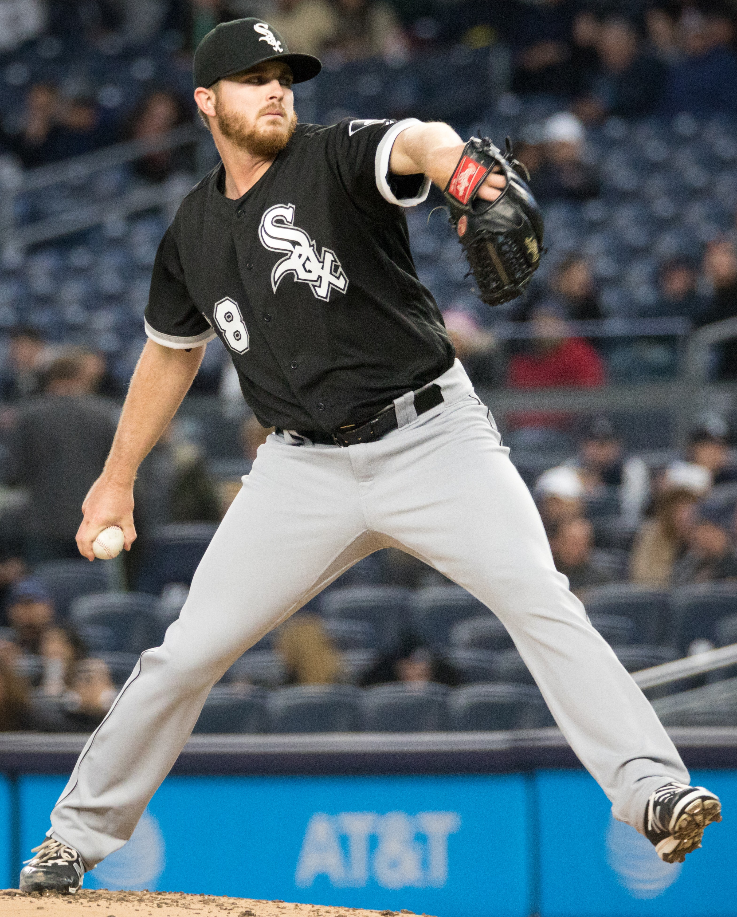 White Sox starter Dylan Covey delivers a pitch during the second inning.